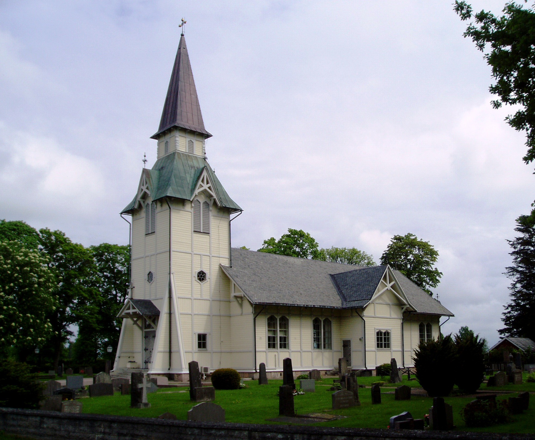 Naum church, Vara municipality, Sweden